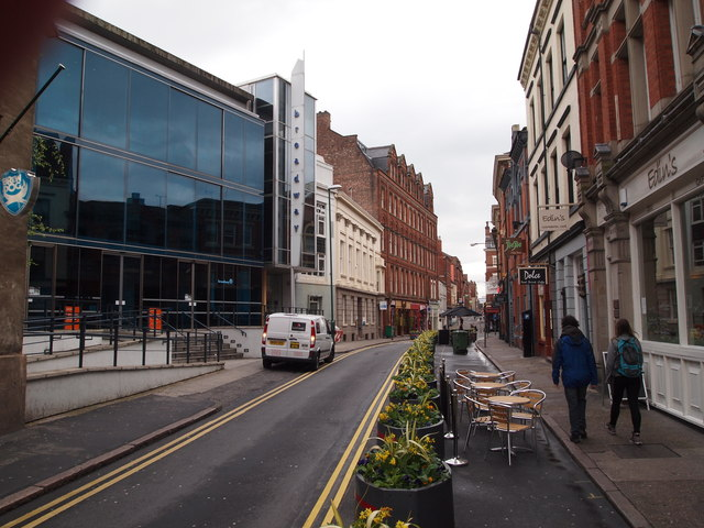 Nottingham - NG1. Broad Street is said to have been part of an ancient route connecting Nottingham with York via Doncaster. It was known as Broad Lane until the mid-1700s. Although the independent Broadway cinema has functioned on this site since... more